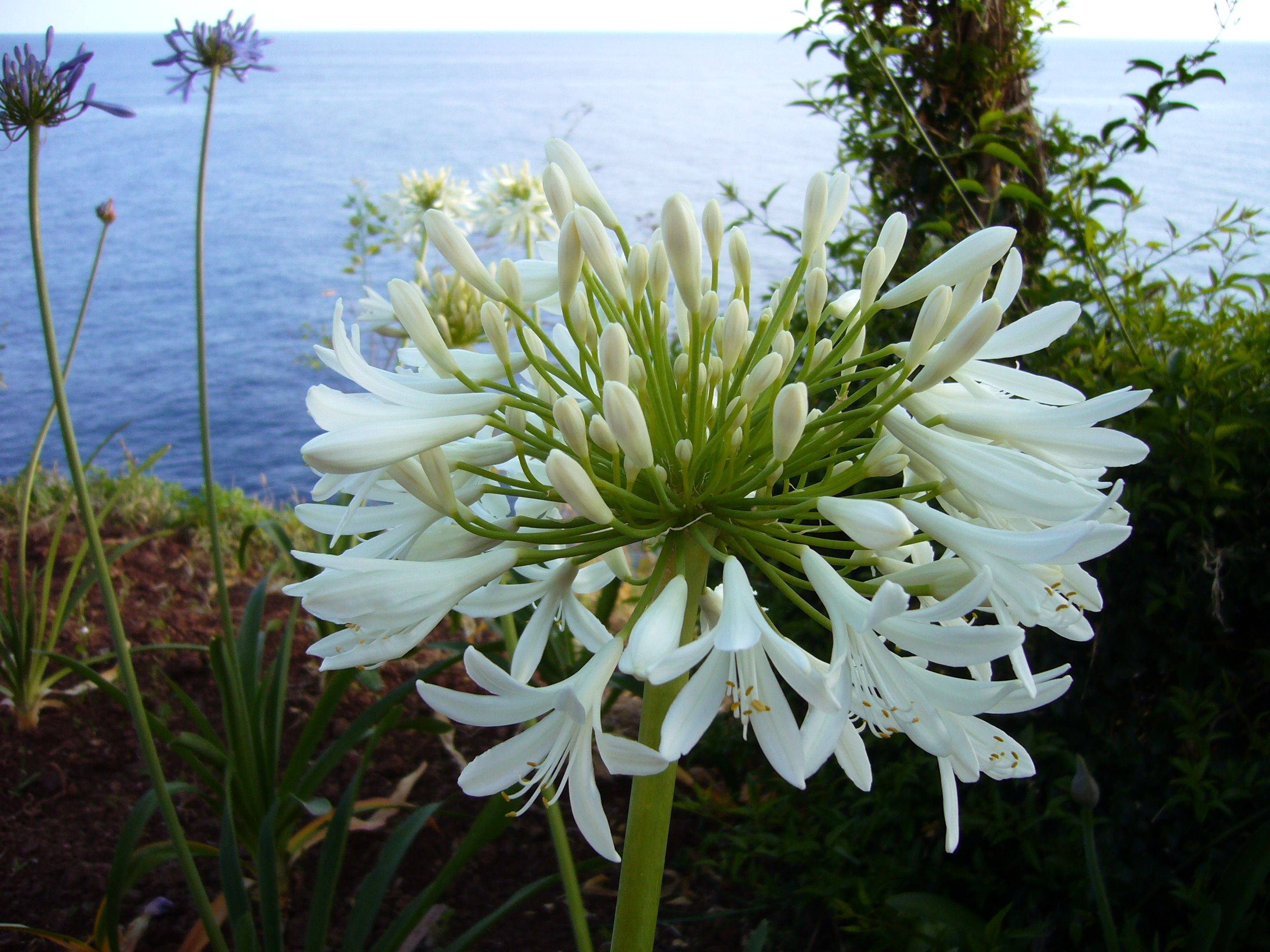 Agapanthus praecox white at the seashore in Funchal, Madeira